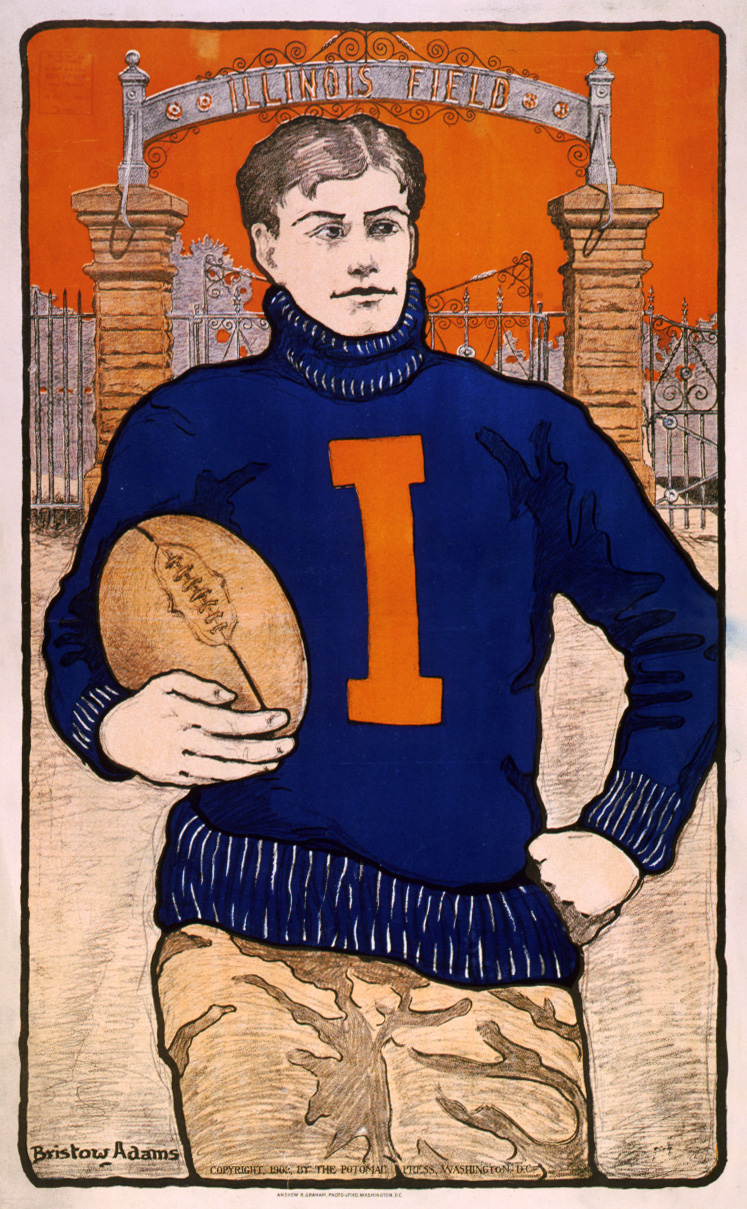 Original caption: "Football player, with letter I on sweater, holding football, in front of Illinois Field. 1 print (poster) : photo-lithograph, color."